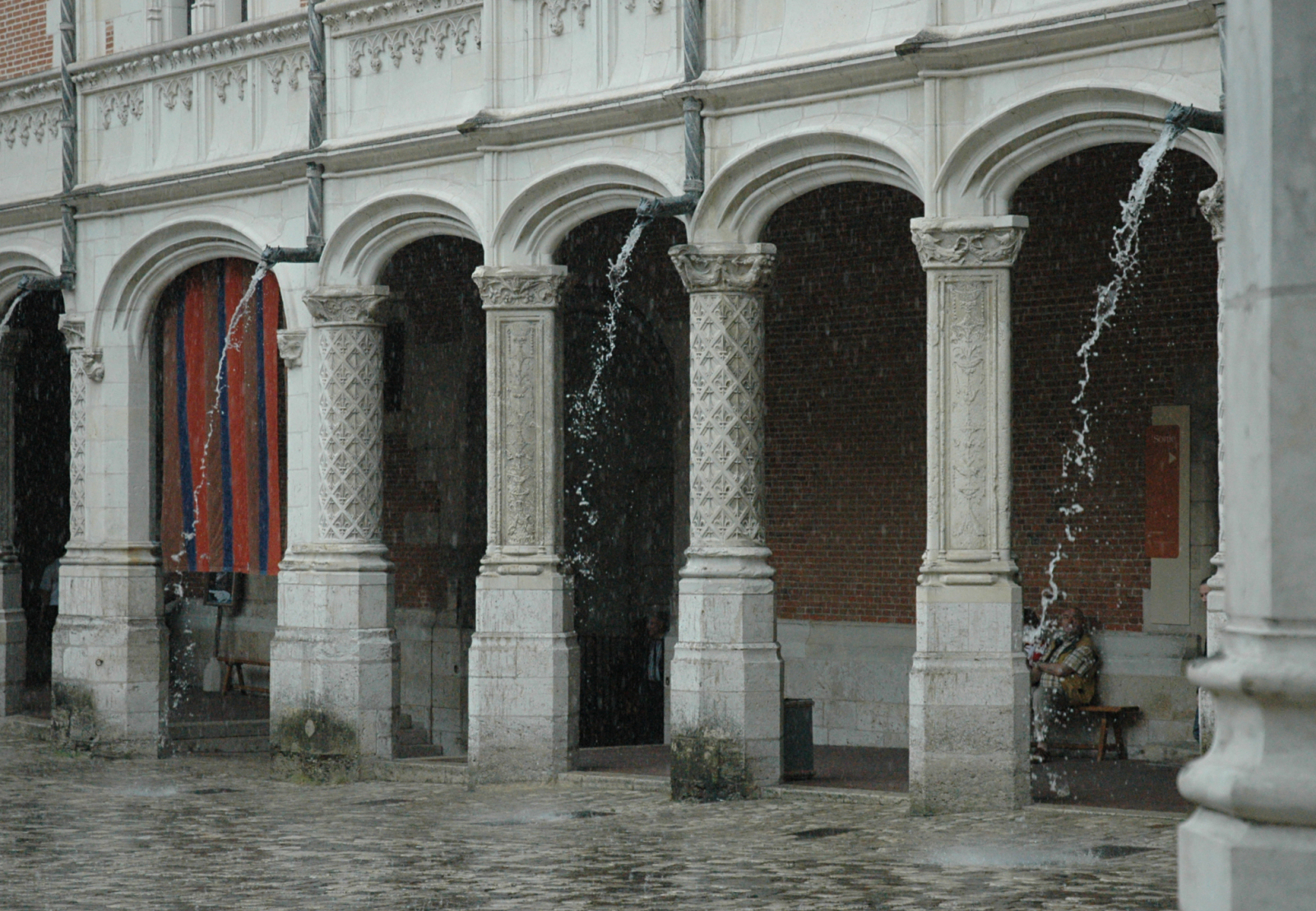 Château de Blois, gallery of the Louis XII wing